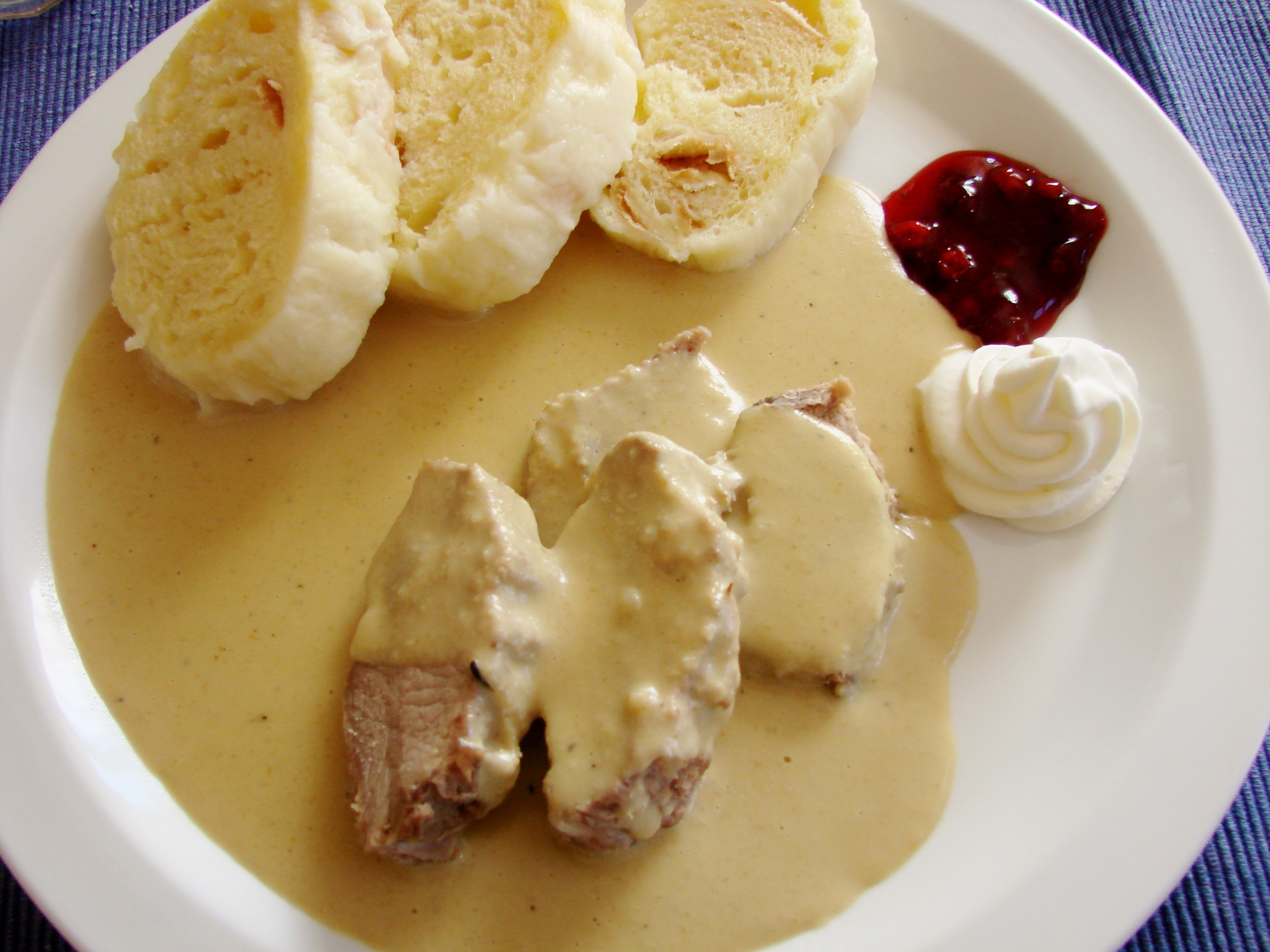 Traditional Czech dish "svičková na smetaně", (venison) sirloin with sauce made of cream and root vegetables. Meat is served with Czech dumplings, whipped cream and cranberry sauce.